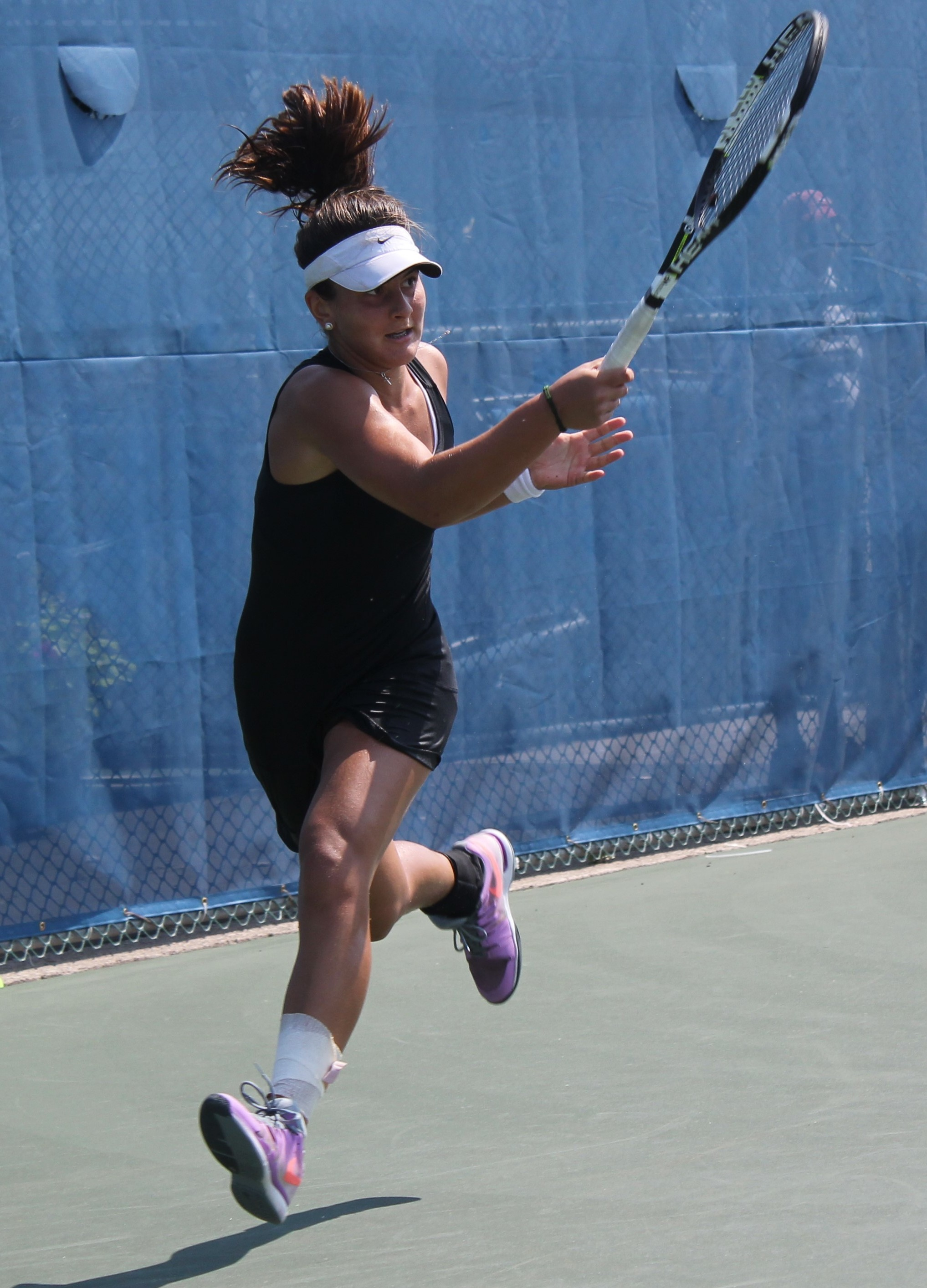 Bianca Andreescu hits a running forehand during the 2015 U18 Outdoor Rogers Junior Nationals final.